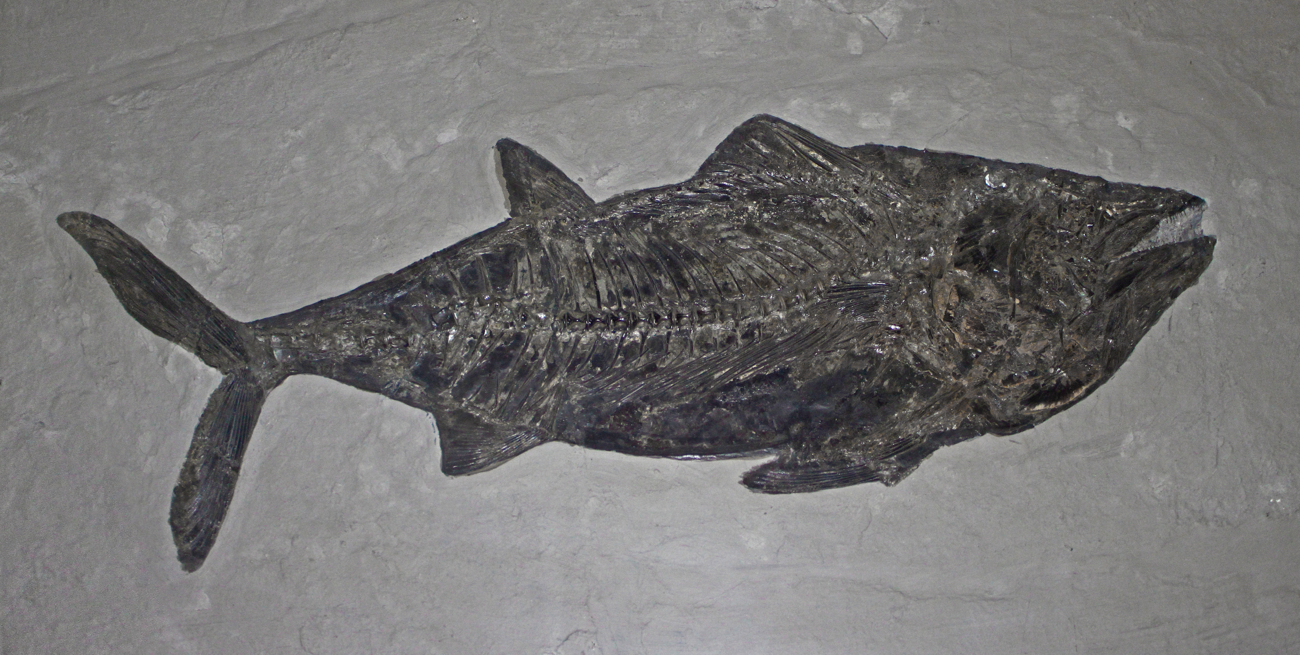 Thunnus spec., Scombridae, Tuna; Oligocene, Clay pit of Unterfeld, Frauenweiler near Heidelberg, Germany; Staatliches Museum für Naturkunde Karlsruhe, Germany.